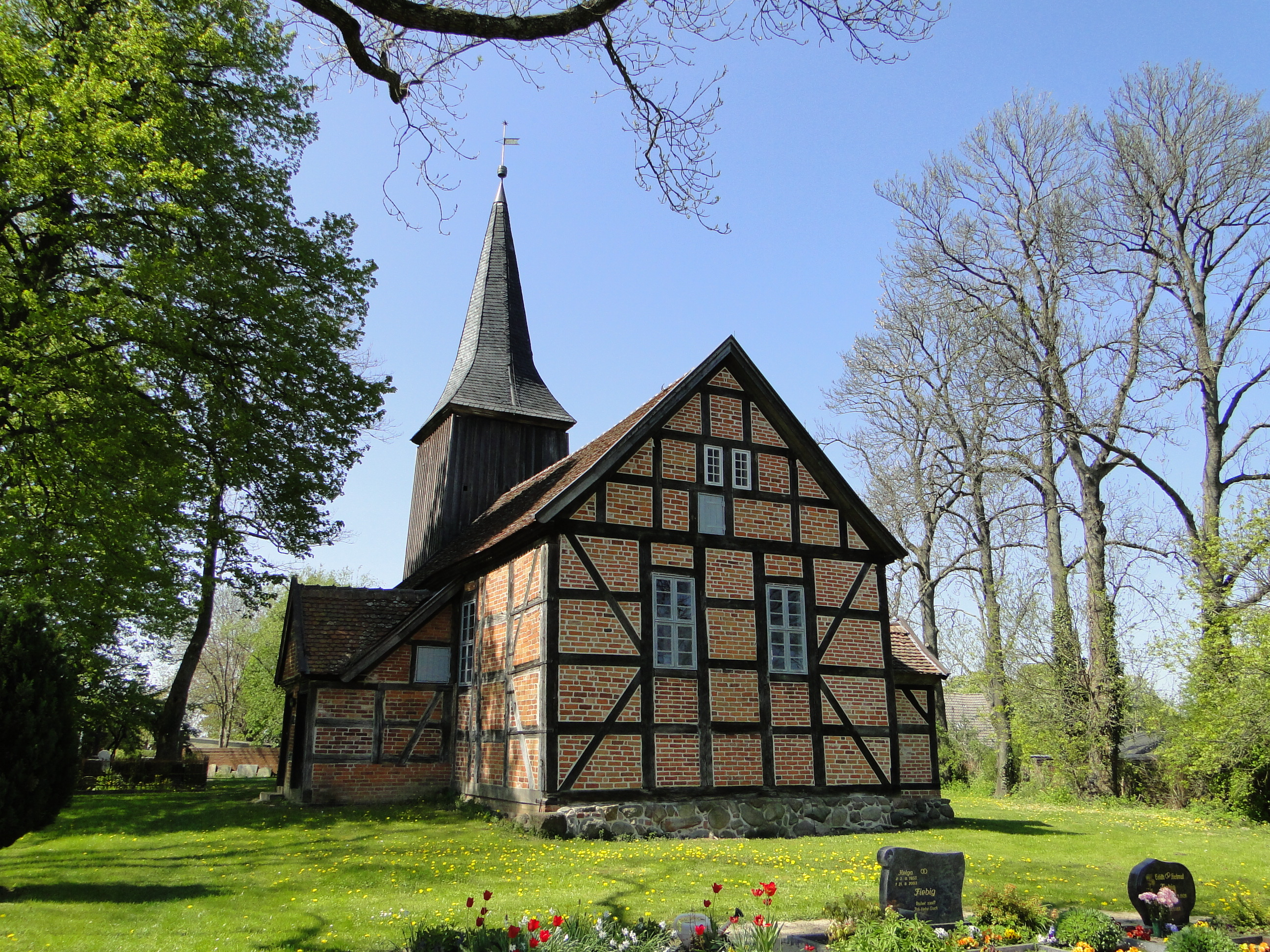 Church in Mildenitz, district Mecklenburg-Strelitz, Mecklenburg-Vorpommern, Germany